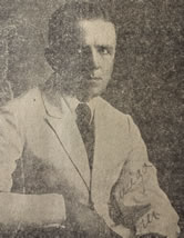 Hellmut von Krohn, German pilot in WW I and in Colombia, died 1924